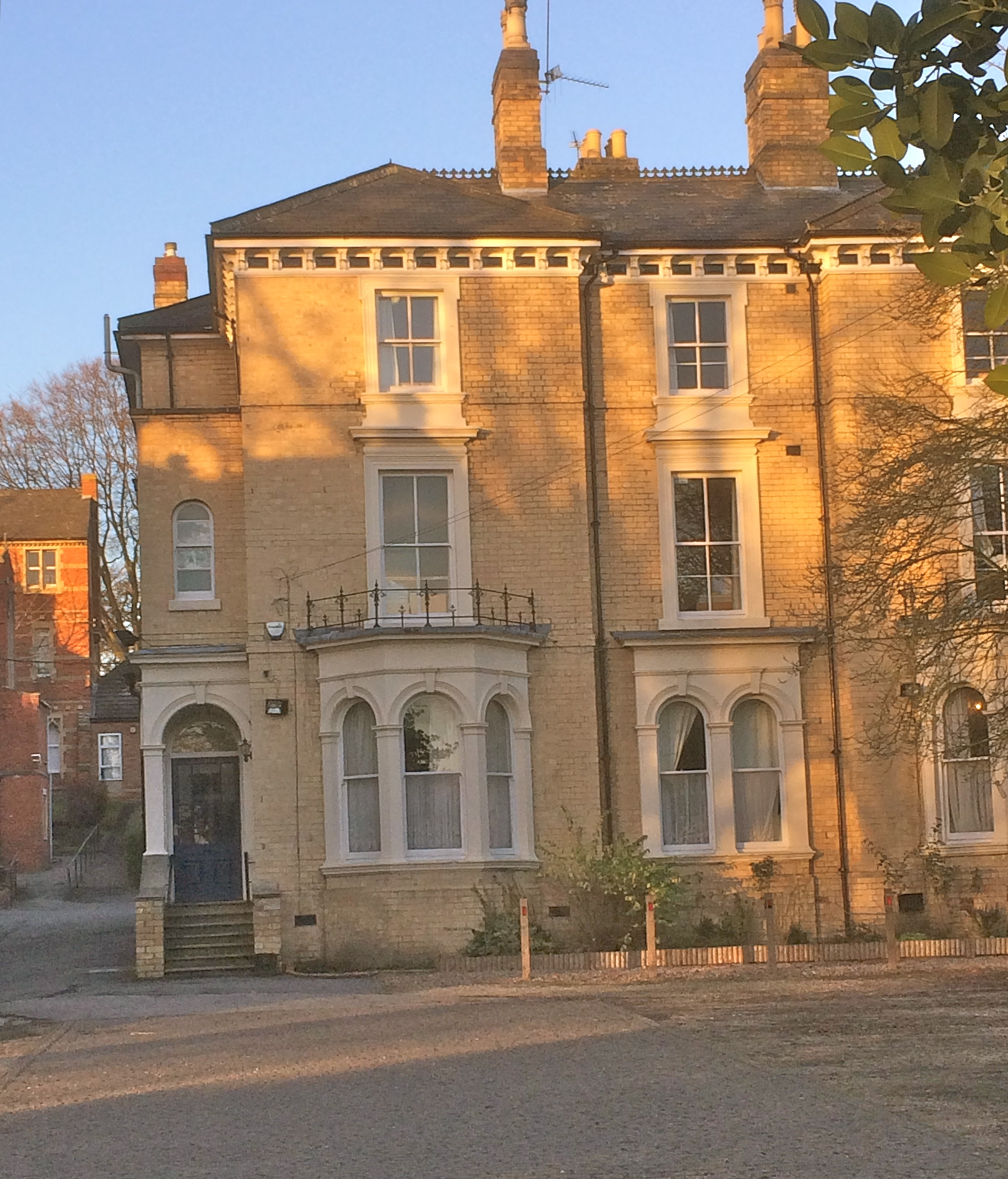 1&2 Lindum Terrace, Lincoln